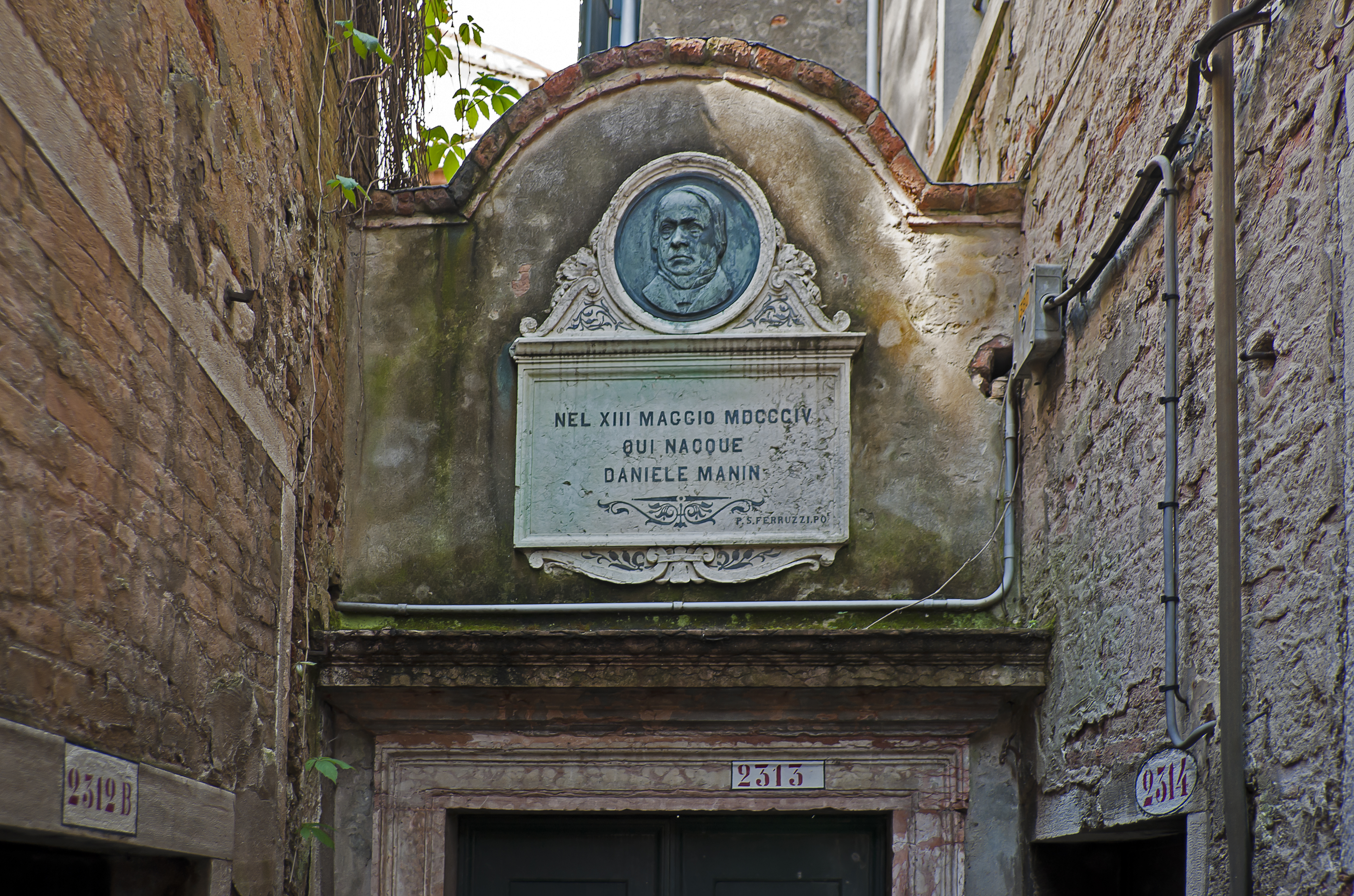 Birthplace of Daniele Manin, Ramo Astori, Sestiere di San Polo Venice.